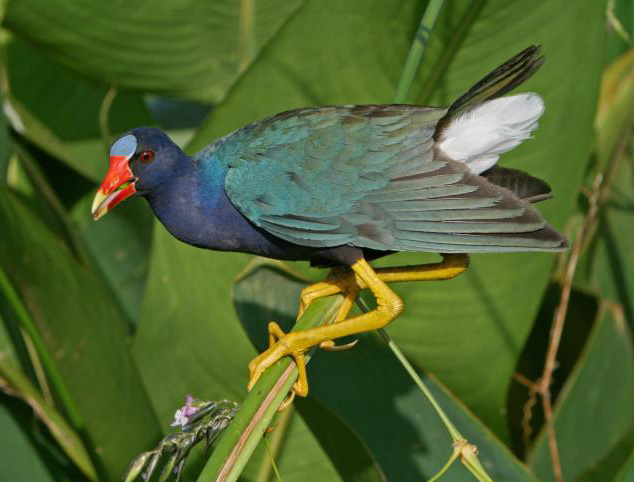 Purple Gallinule eating his favorite food, the fireflag seed, at Green Cay, Delray Beach, Florida